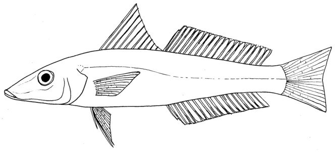 Habdrawn diagram of Sillago indica, the Indian whiting. Based in part on McKay (1985)